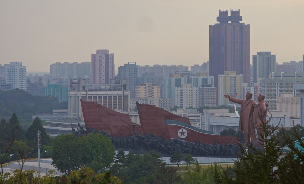 Mansudae Grand Monument Pyongyand, DPRK